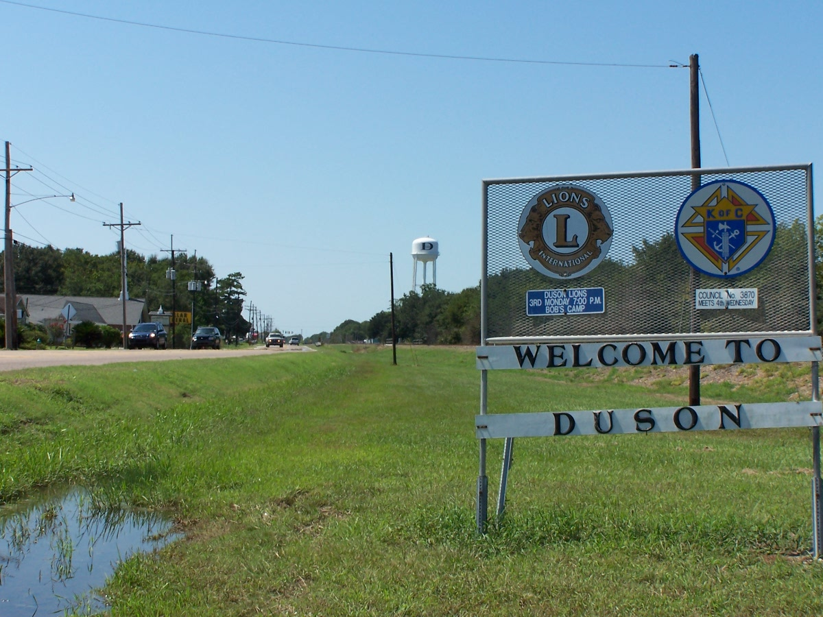 I took the picture. I release to public domain.